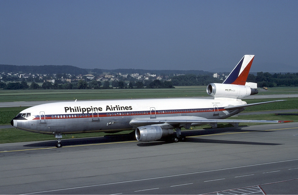 Philippine Airlines McDonnell Douglas DC-10-30